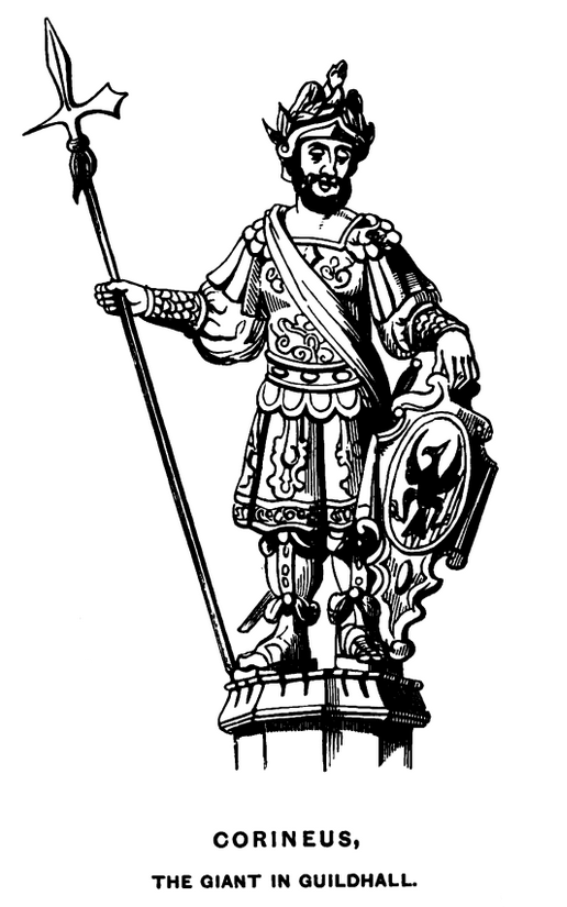 One of two wooden figures displayed in the Guildhall in London, carved by Captain Richard Saunders in 1709, replacing earlier wicker and pasteboard effigies which were traditionally carried in the Lord Mayor's Show. They represent the legendary characters of Gogmagog and Corineus, but were later known as Gog and Magog. Both figures were destroyed during the London Blitz 1940; new figures were carved in 1953.